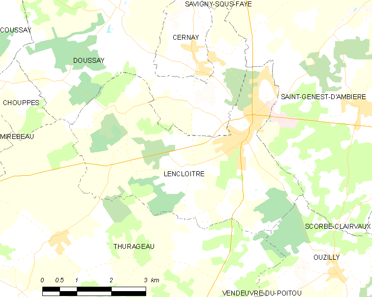 Map of French municipality Lencloître